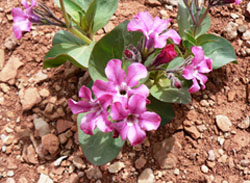 Cycladenia humilis var. jonesii at Glen Canyon National Recreation Area, USA. NPS photo, no copyright.